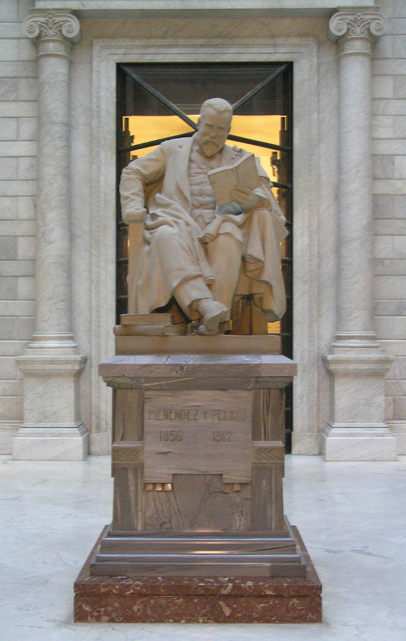 Statue of Marcelino Menéndez y Pelayo in the lobby of the Biblioteca Nacional de España, Madrid, Spain. Author: Mr. Tickle Date: November 22nd, 2005